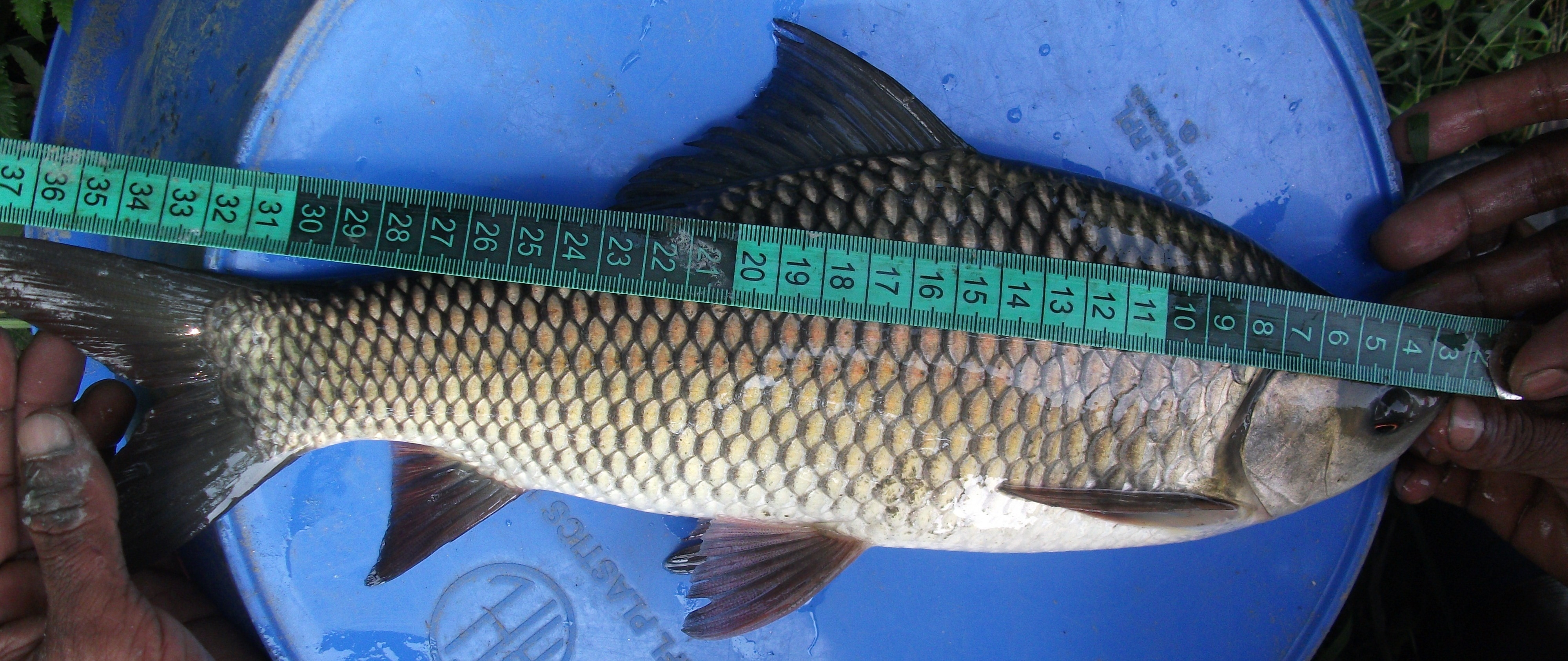 Rohu (Labeo rohita) produced in IMTA (Integrated multi-trophic aquaculture) pond.